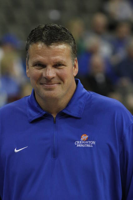 Greg McDermott, head men's basketball coach, Creighton University, 2010-present Greg McDermott